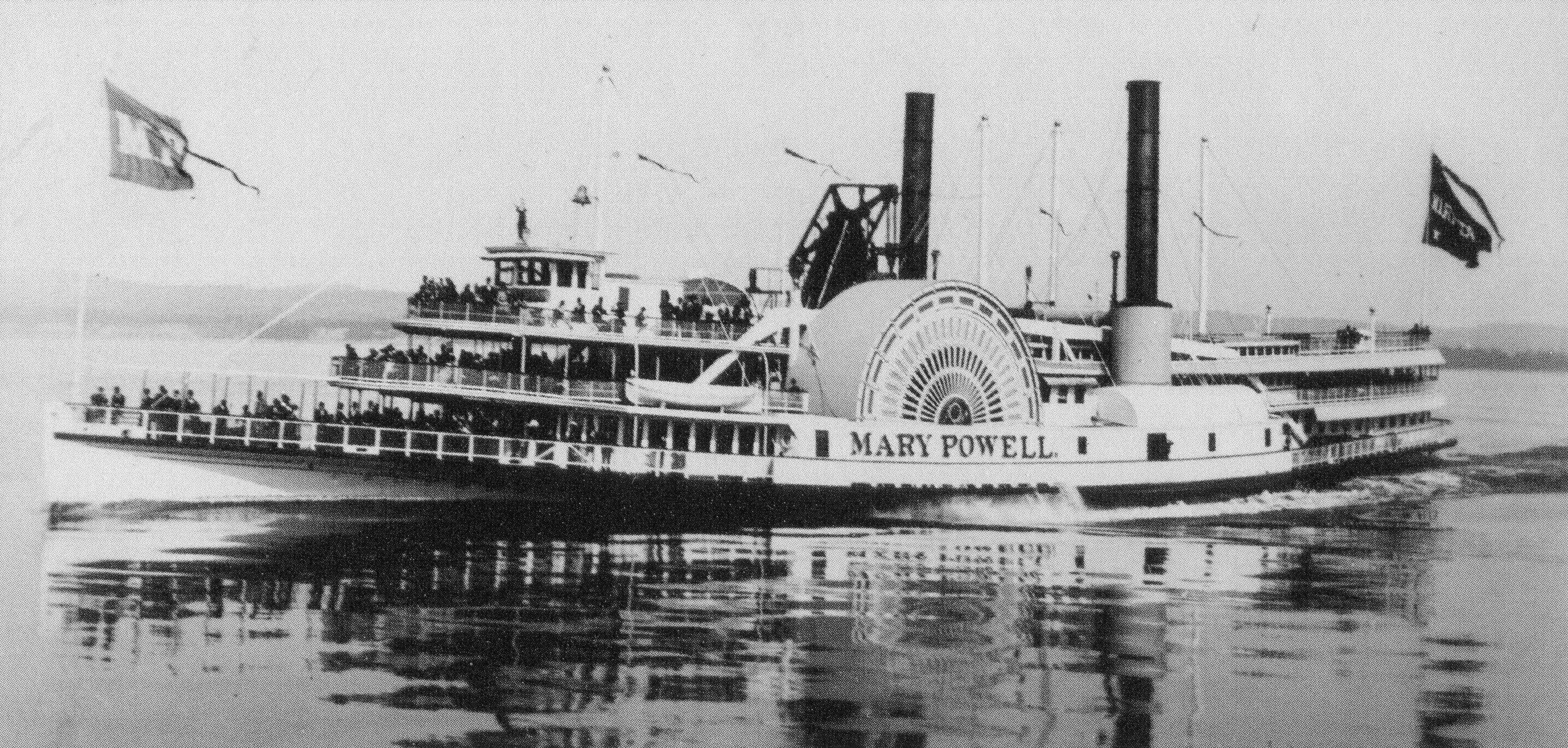 The Hudson River steamboat Mary Powell, built in New Jersey in 1861 by Michael S. Allison. This "classic" photograph (Ewen 2011, p. 56) by J. Loeffler of Staten Island was taken after the steamboat's alterations of 1887-88.